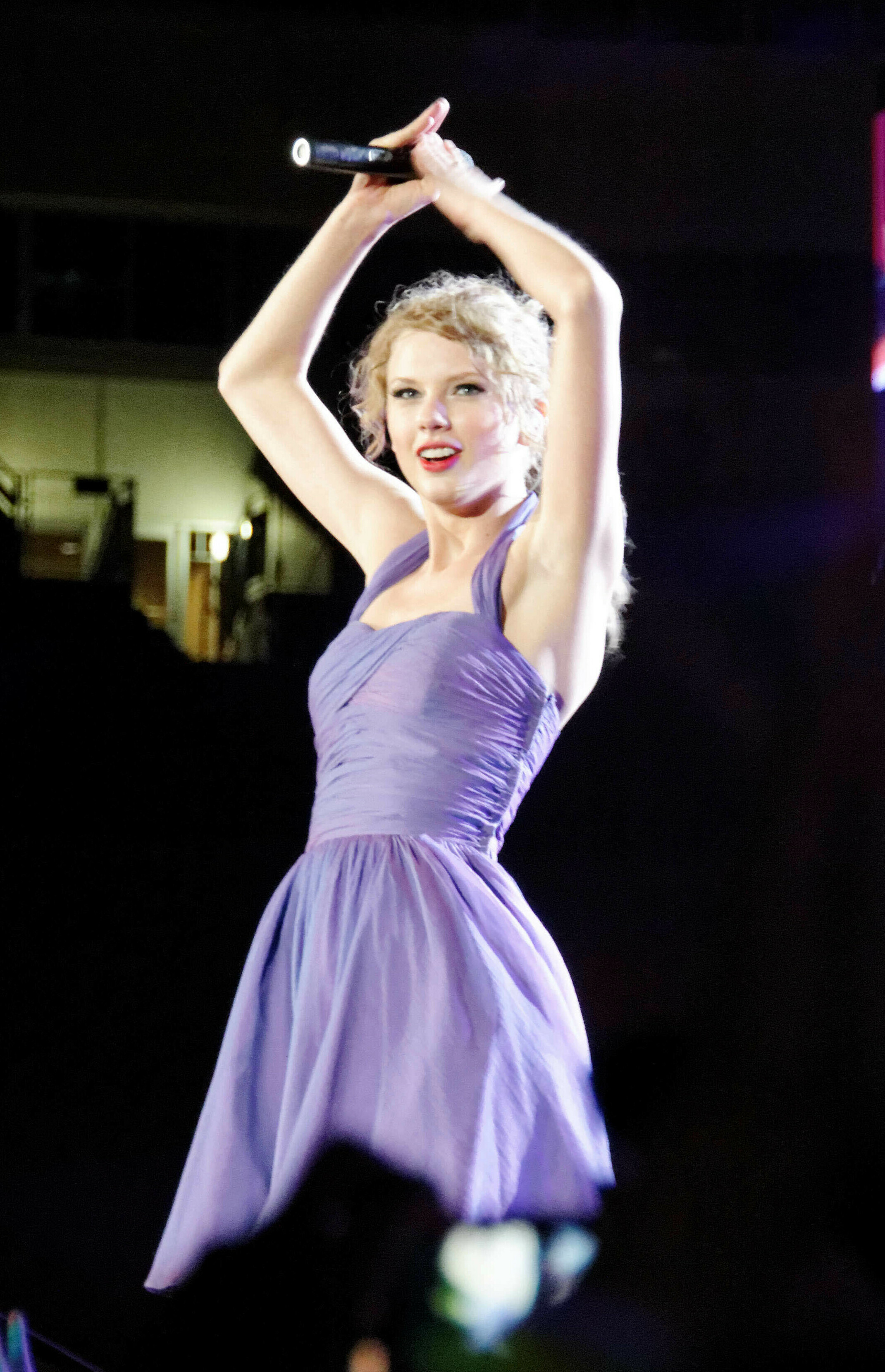 Taylor Swift performing live on Speak Now tour in July 2011 at Heinz Field, Pittsburgh